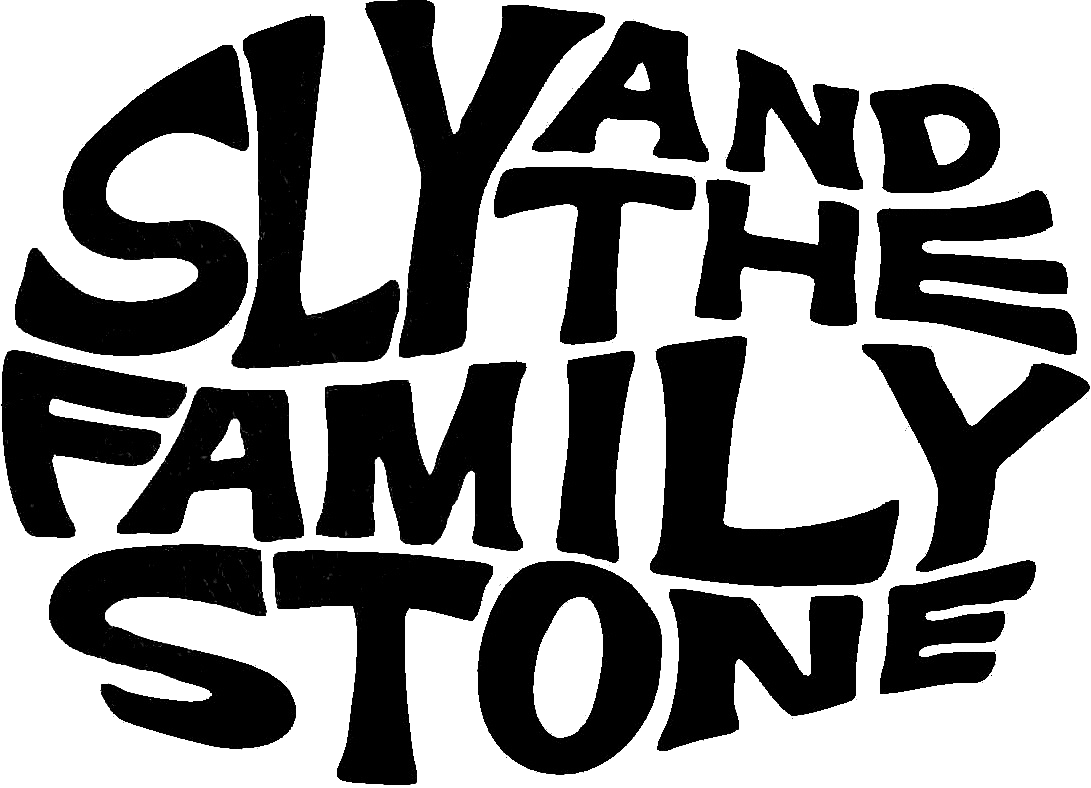 Logotype for Sly and the Family Stone.